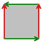 Klein bottle topology.